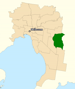 Incorporates or developed using Administrative Boundaries ©PSMA Australia Limited licensed by the Commonwealth of Australia under Creative Commons Attribution 4.0 International licence (CC BY 4.0). Derived from State and Territory Boundaries from the Australian Bureau of Statistics under Creative Commons Attribution 2.5 Australia license (CC BY 2.5 AU)